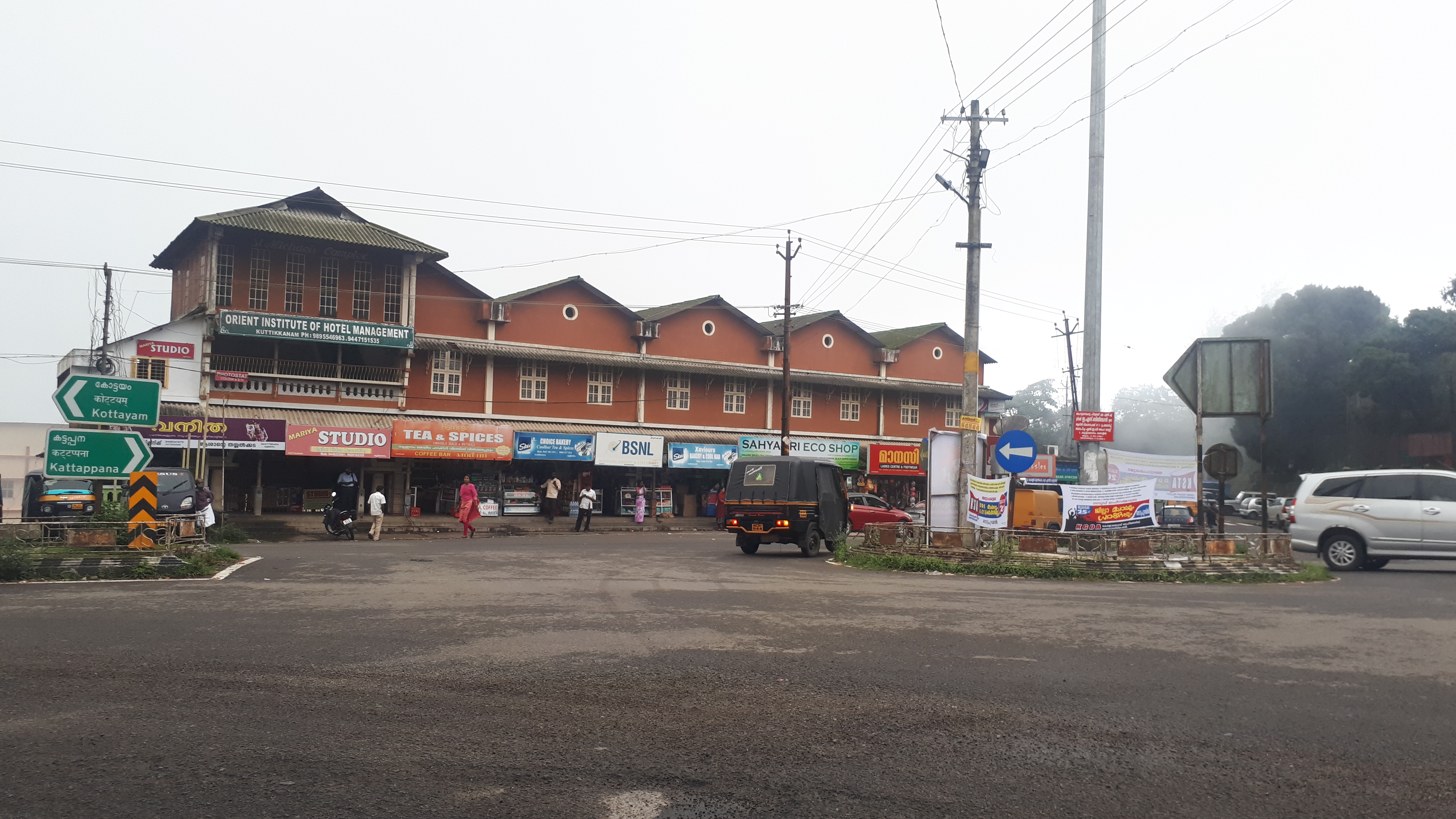 Kuttikkanam junction, on Dindigul-Theni-Kottarakkara highway